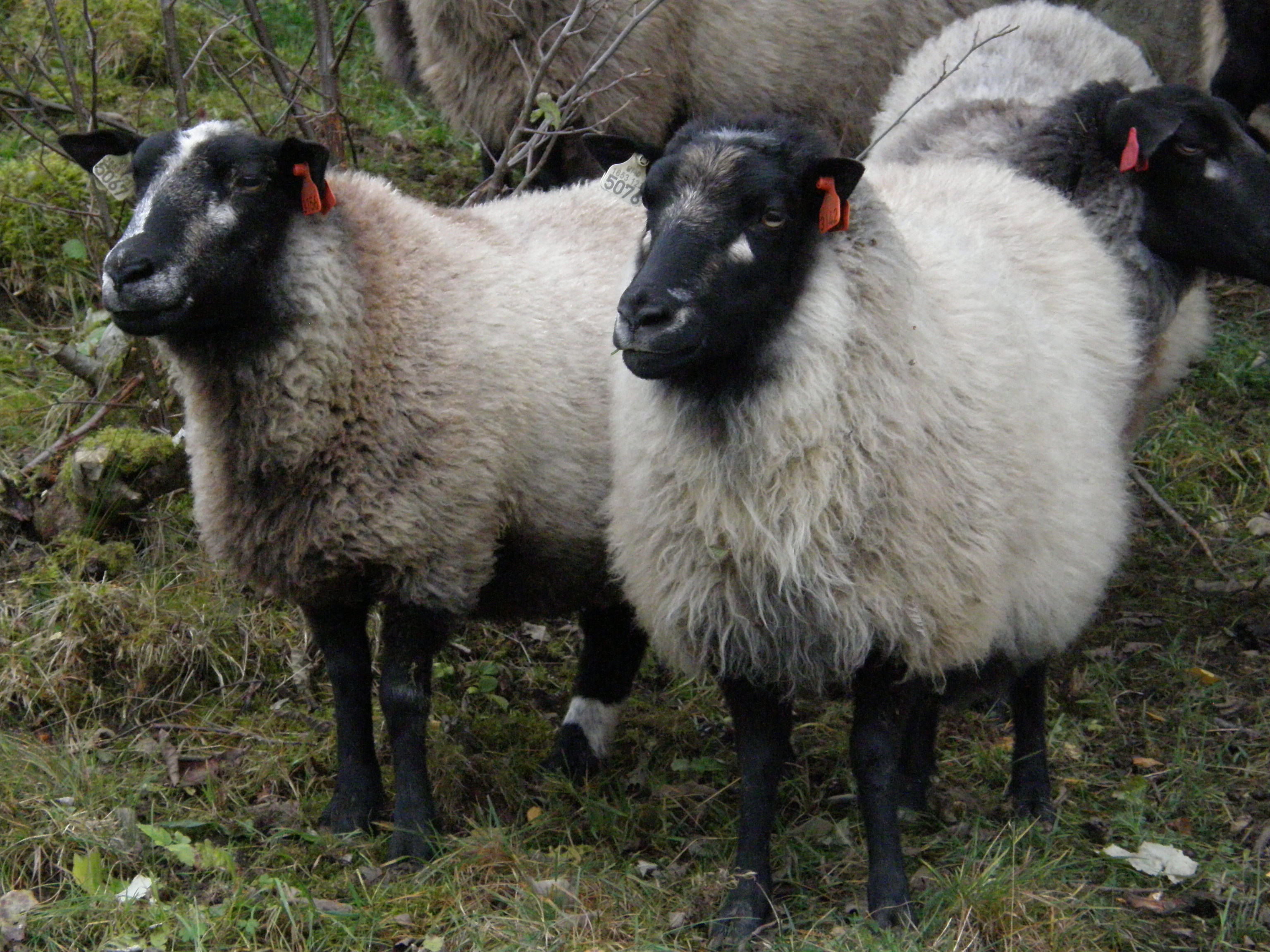 Two sheep from the endangered breed of the domesticated sheep "Grå trønder" (=grey troender)